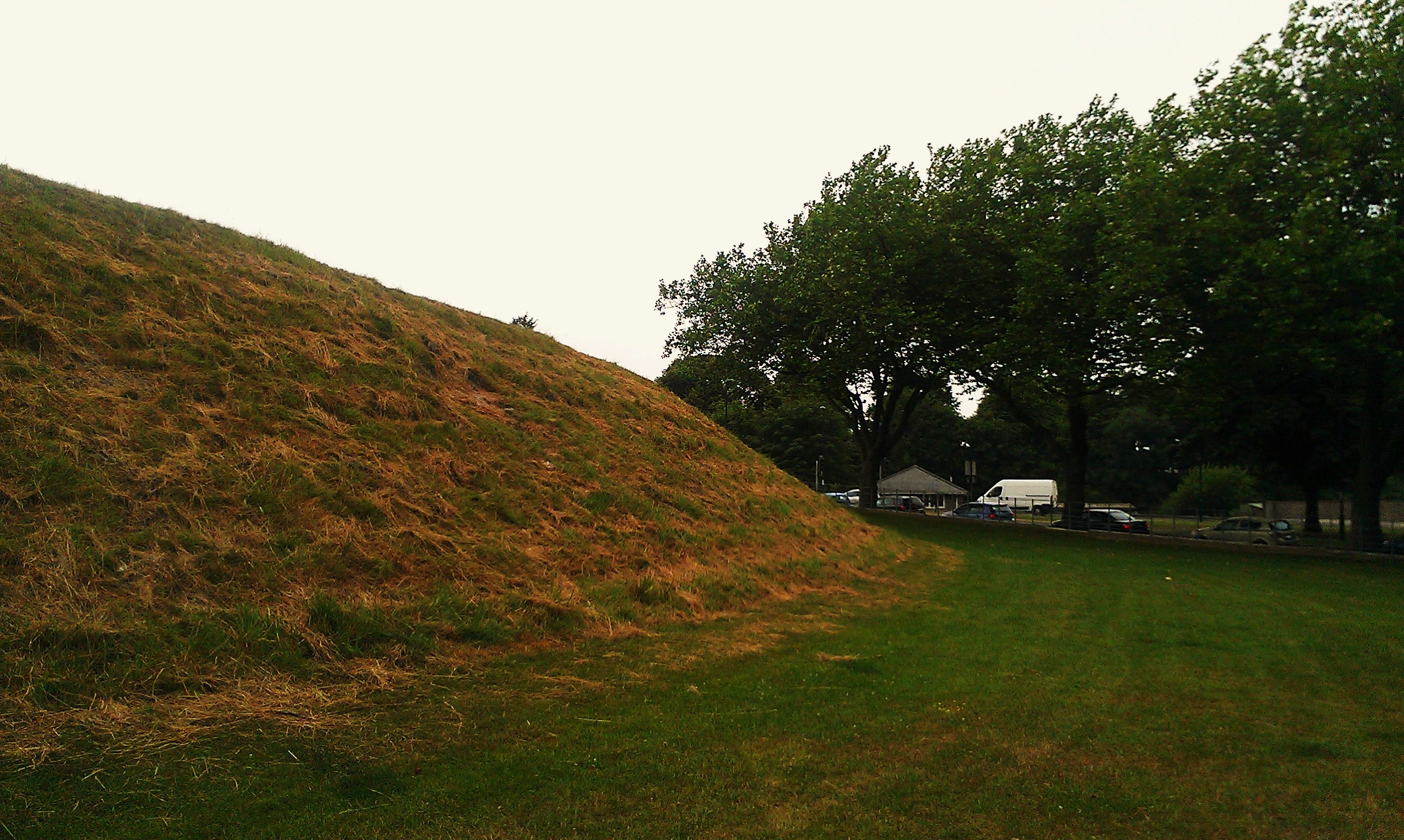 The wall of the Maumbury Rings, a Neolithic henge monument in Dorchester, Dorset.